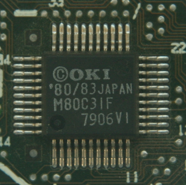 IC photo